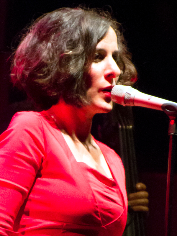 Lisa Bassenge & Band at the „Detmolder Sommerbühne“ 2014: File:Detmold - 2014-08-08 - Lisa Bassenge (20).jpg cropped out and edited.